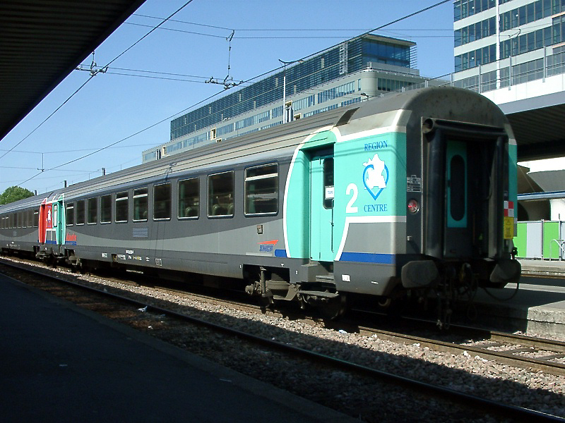 Voiture Corail at Paris Austerlitz Sta., France.